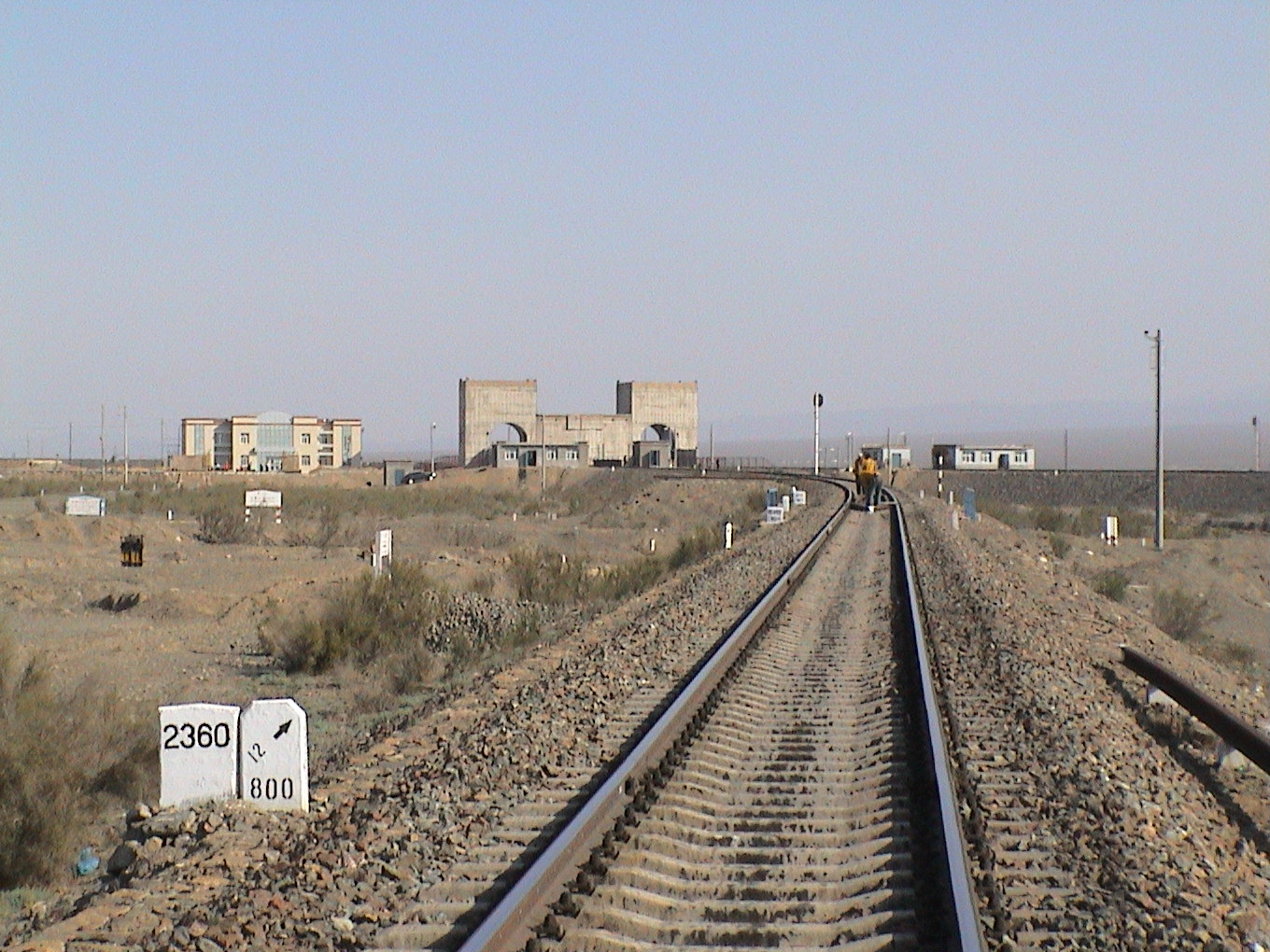 View to the westernmost point of the main (northern) branch of the Lanxin railway in Alataw Pass, 2360 kilometers from the starting point in Lanzhou. At this point, the railway connects to the Kazakhstan rail system in Dostyk, linking the Chinese rail system to that of the former USSR and forming a connection as part of the Eurasian Land Bridge.